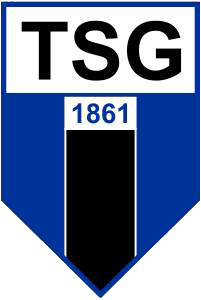 Logo of former german sportclub TSG 1861 Ludwigshafen (1937 - 1945)